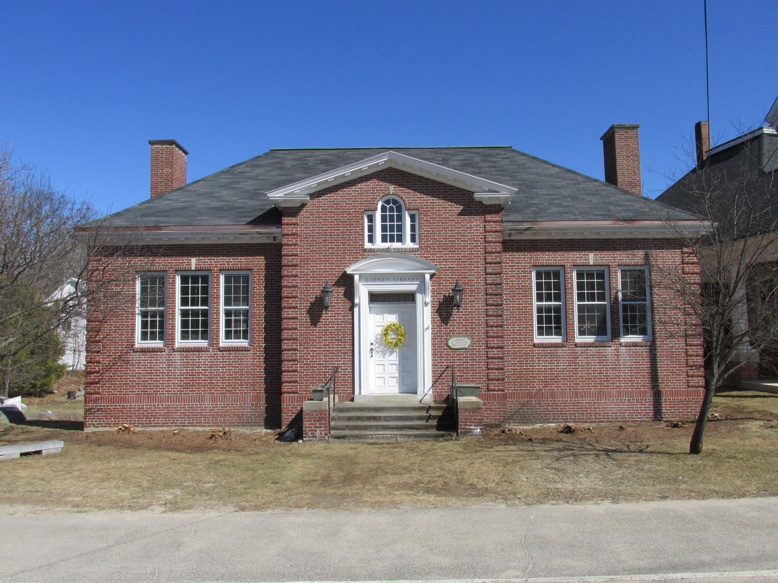 Gafney Library, Sanbornville New Hampshire - 2013